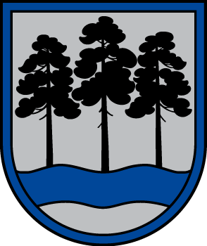 Coat of arms of Ogre municipalityLatviešu: Ogres novada ģerbonis